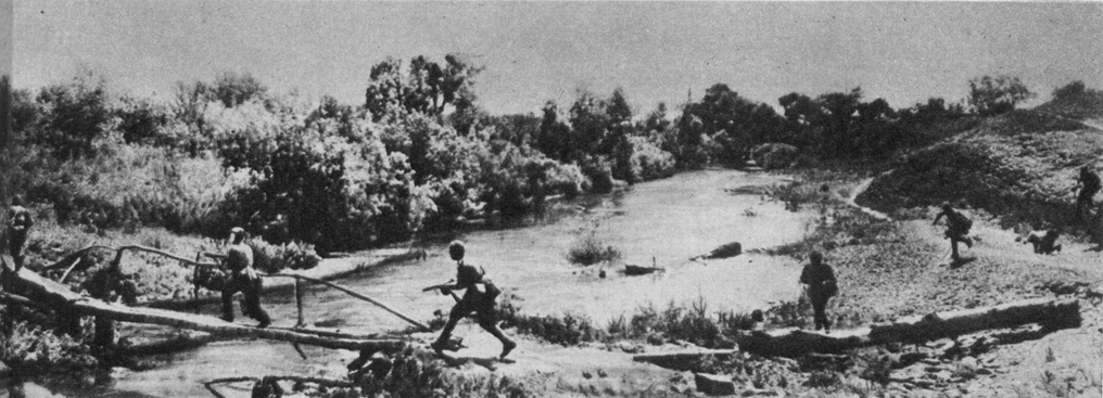 Soviet infantry crossing the river Mius during their offensive to retake the Donbass region in late summer 1943.